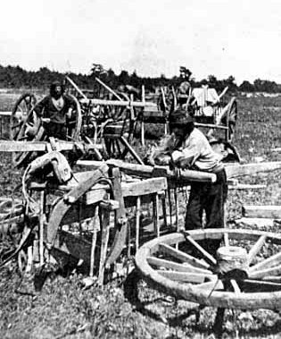 Preparing Red River ox cart at Pembina, North Dakota for trip to St. Anthony Falls, Minnesota